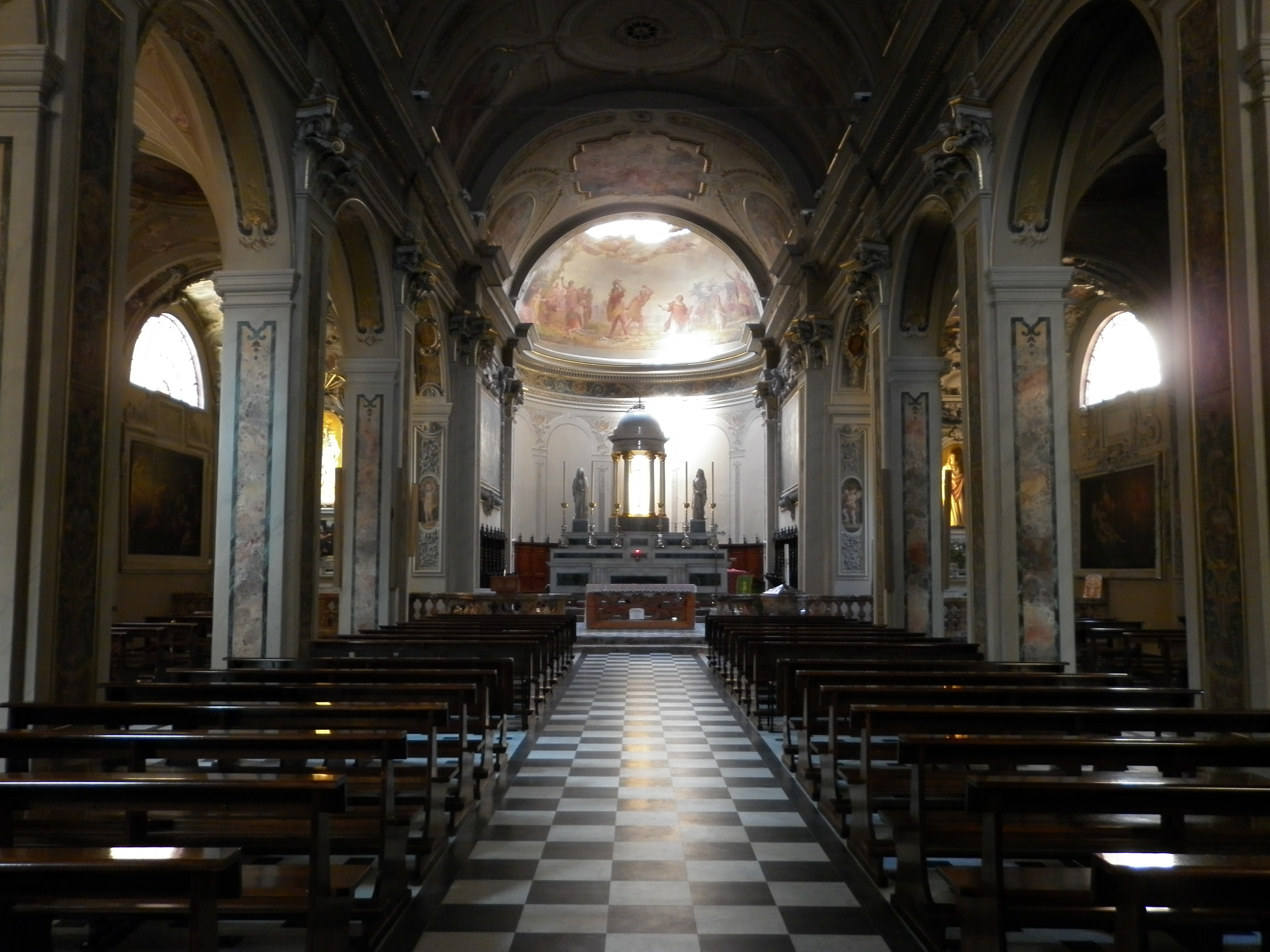 Small Catholic Church at Menaggio